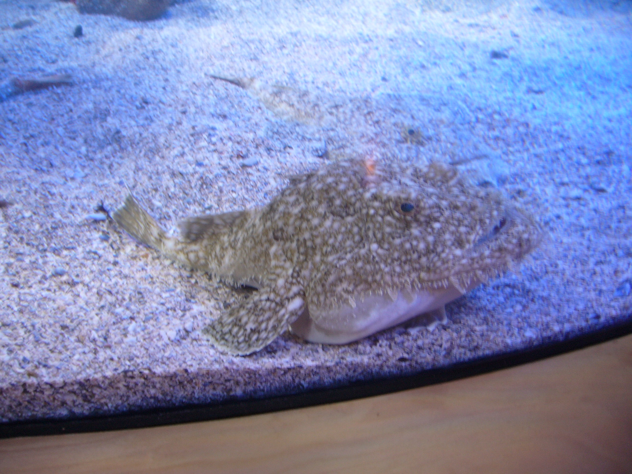 Lophius piscatorius (Angler) in Sala Maremagnum of Aquarium Finisterrae (House of the Fishes), in Corunna, Galicia, Spain.